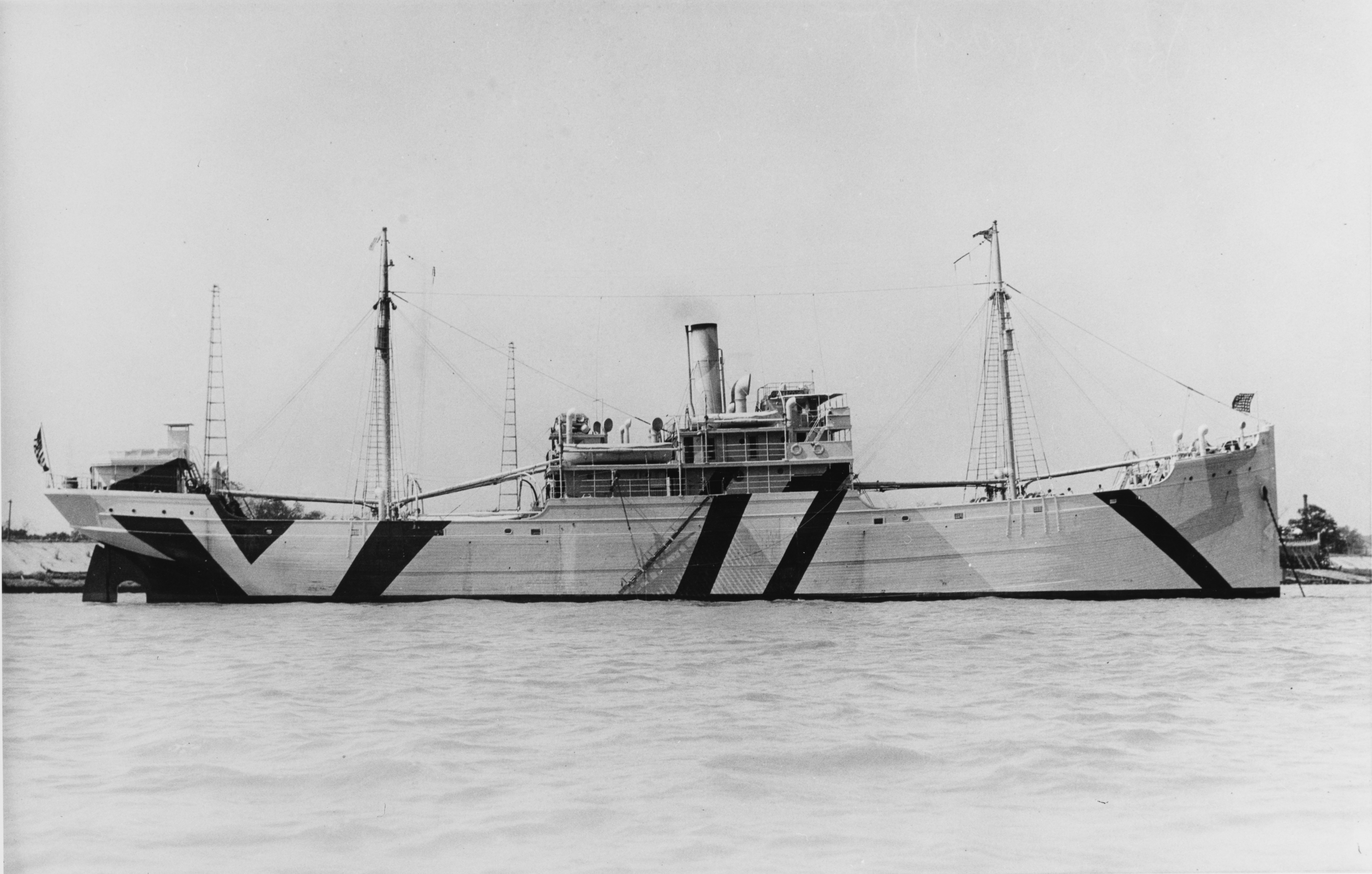 (ID # 3810) Probably photographed soon after her completion on 23 September 1918. One of over 200 small wooden hulled cargo ships built for the Emergency Fleet Corporation to its standard Ferris design, this ship was in commission in the Navy between 29 September and 21 December 1918. Photograph from the Bureau of Ships Collection in the U.S. National Archives.